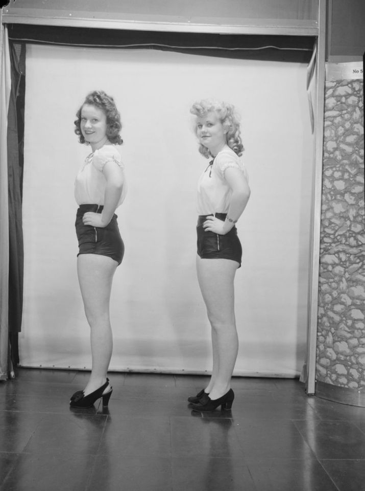 We see Lorraine and Eleanor Lanthier. They wear shorts and blouse.